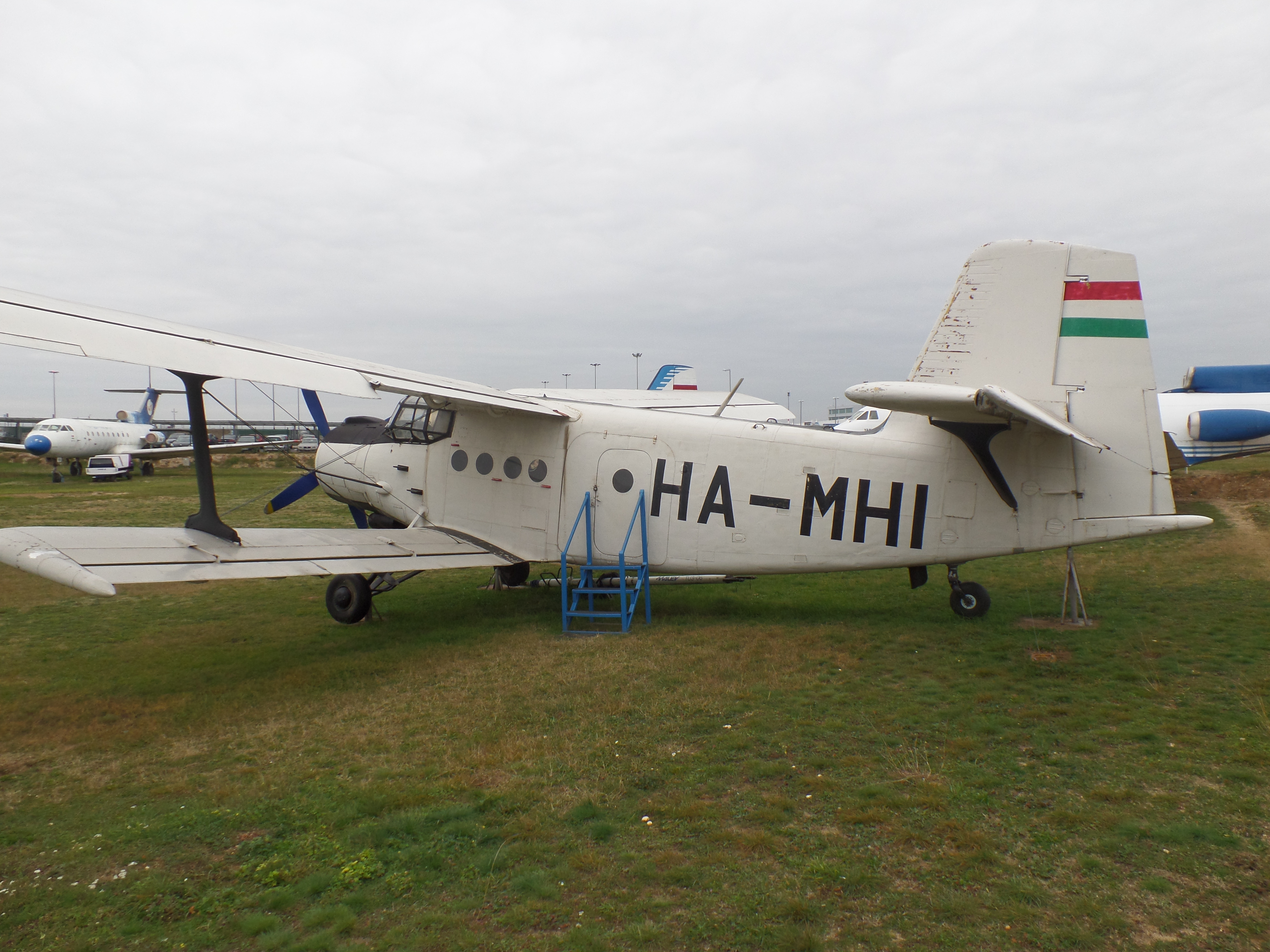 Antonov An-2M HA-MHI at Aeropark Budapest on 20 October, 2016.